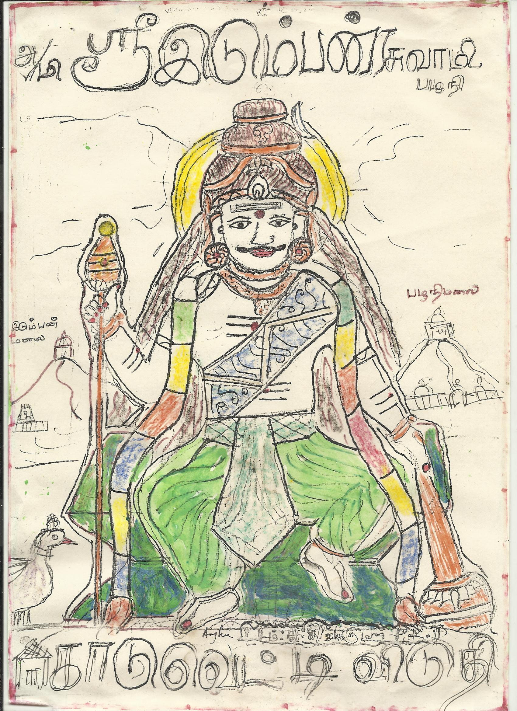 idumban